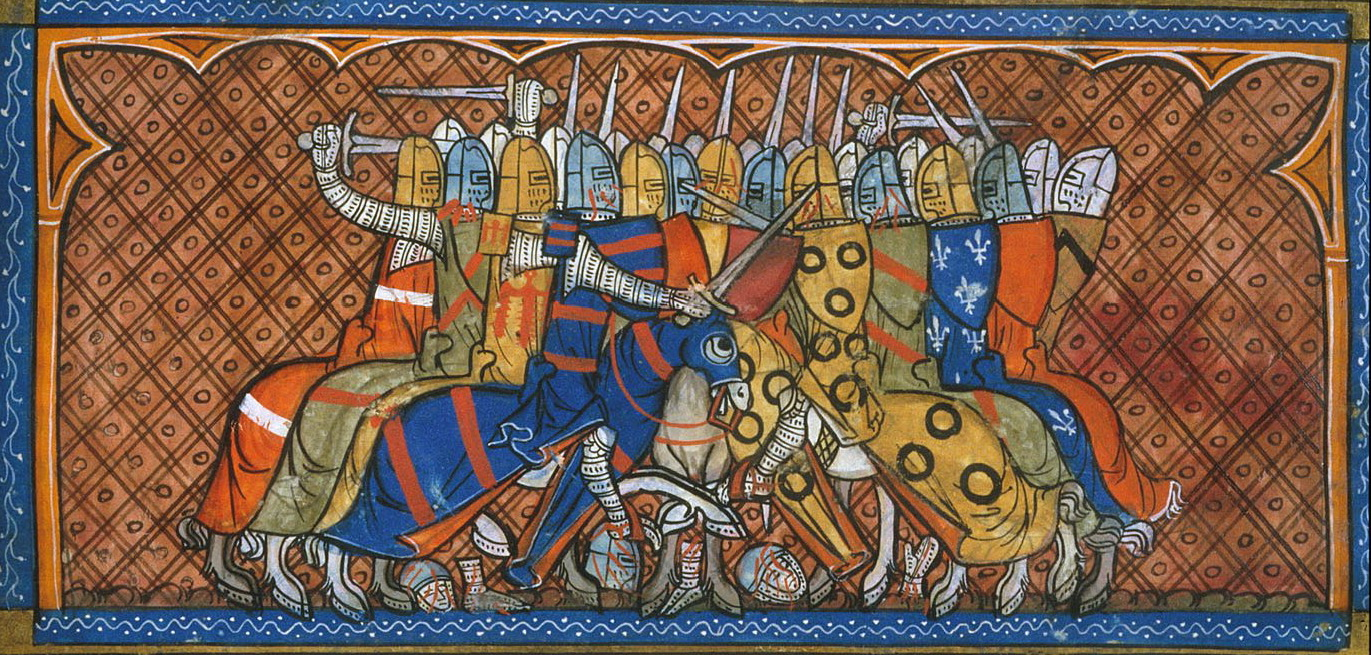 Knights in combat. (British Library, Royal 16 G VI f. 379)